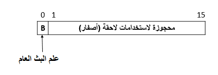 The flag field architecture in the DHCP header.